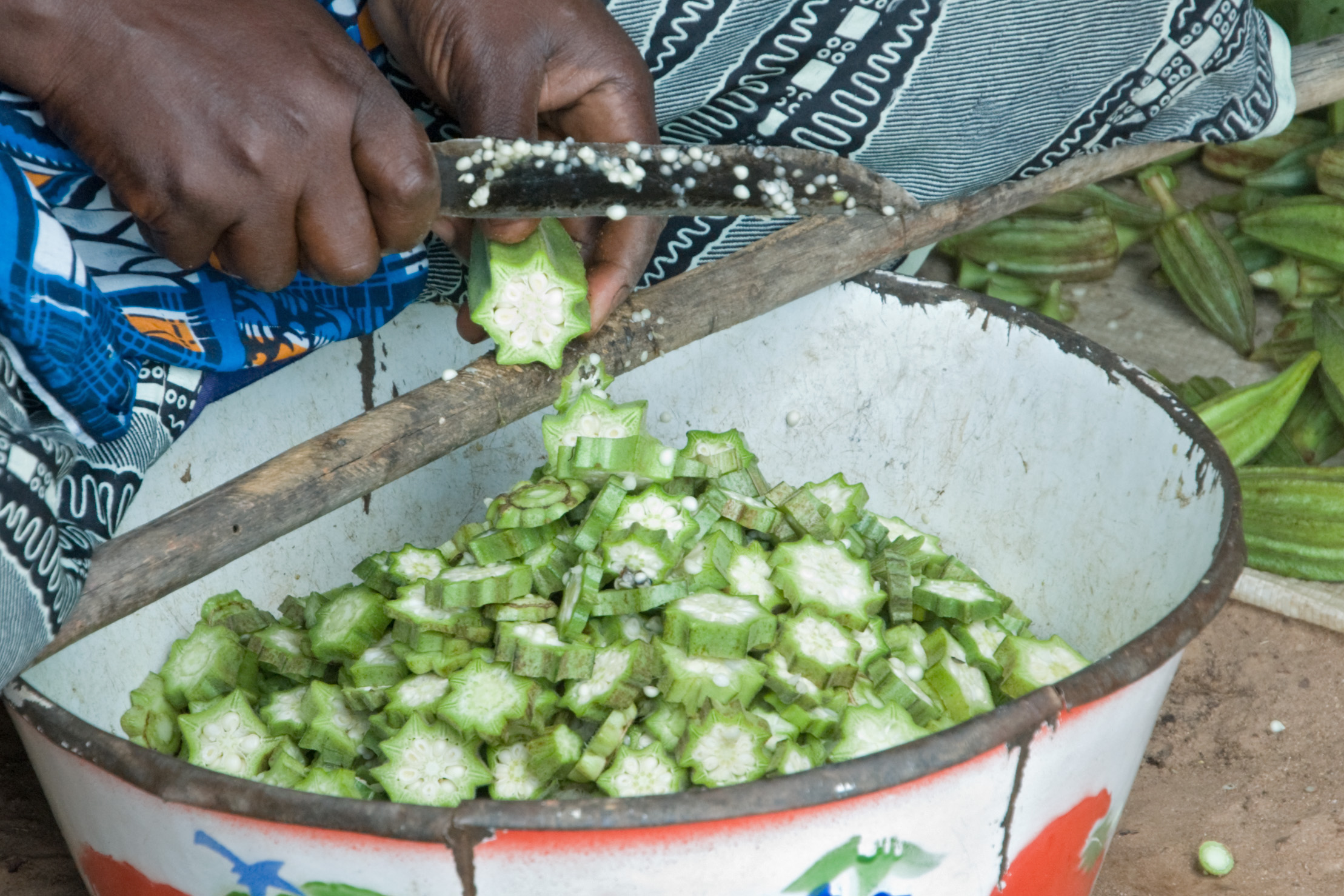 Cutting young okra fruit into slices, which are then cooked or fried as a vegetable, or dried and stored for consumption later (Koutiala District, Mali sep2014) .